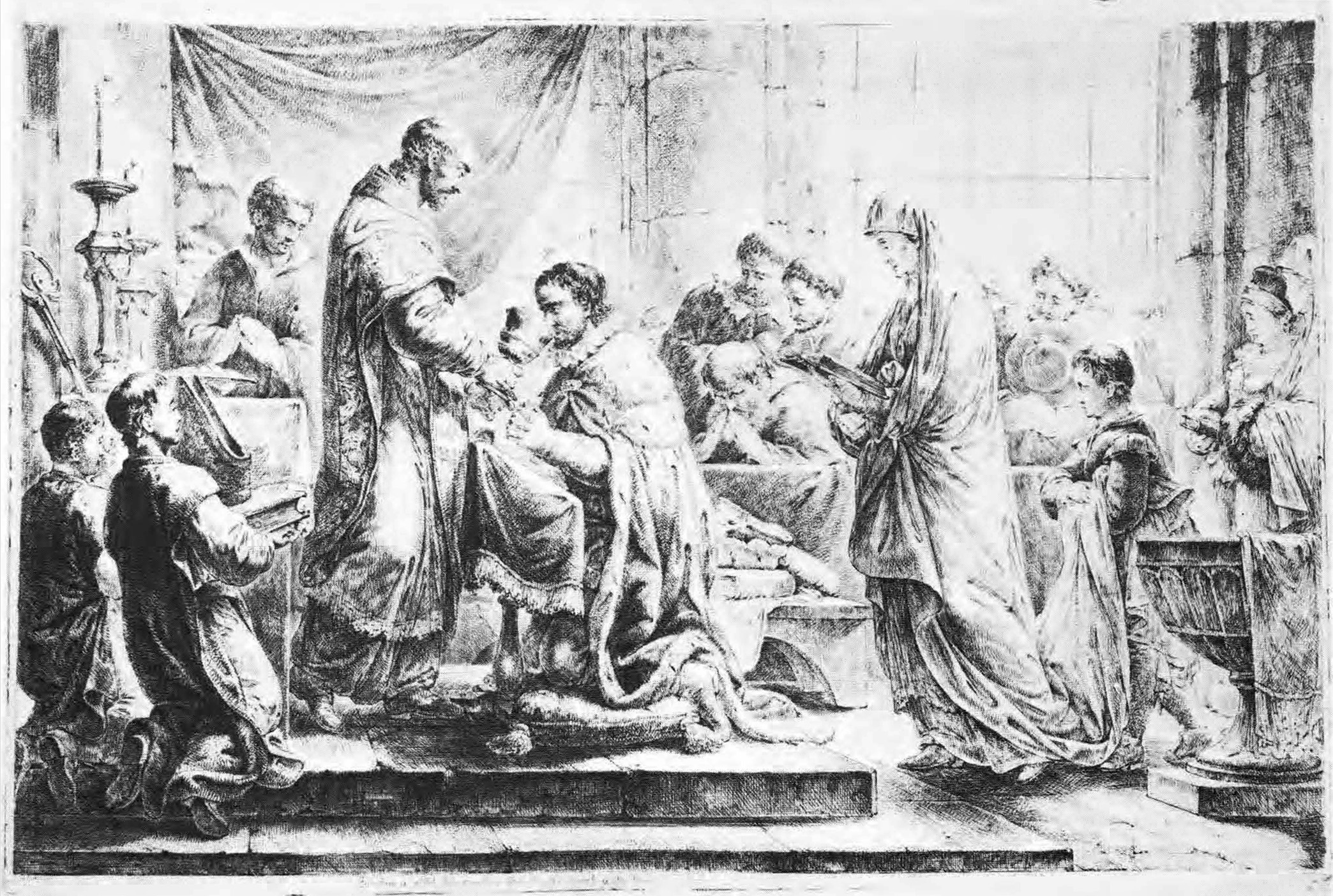 Joachim II receives the Eucharist in both forms, the Bread and the Cup. Engraving by Bernhard Rode, 1783.